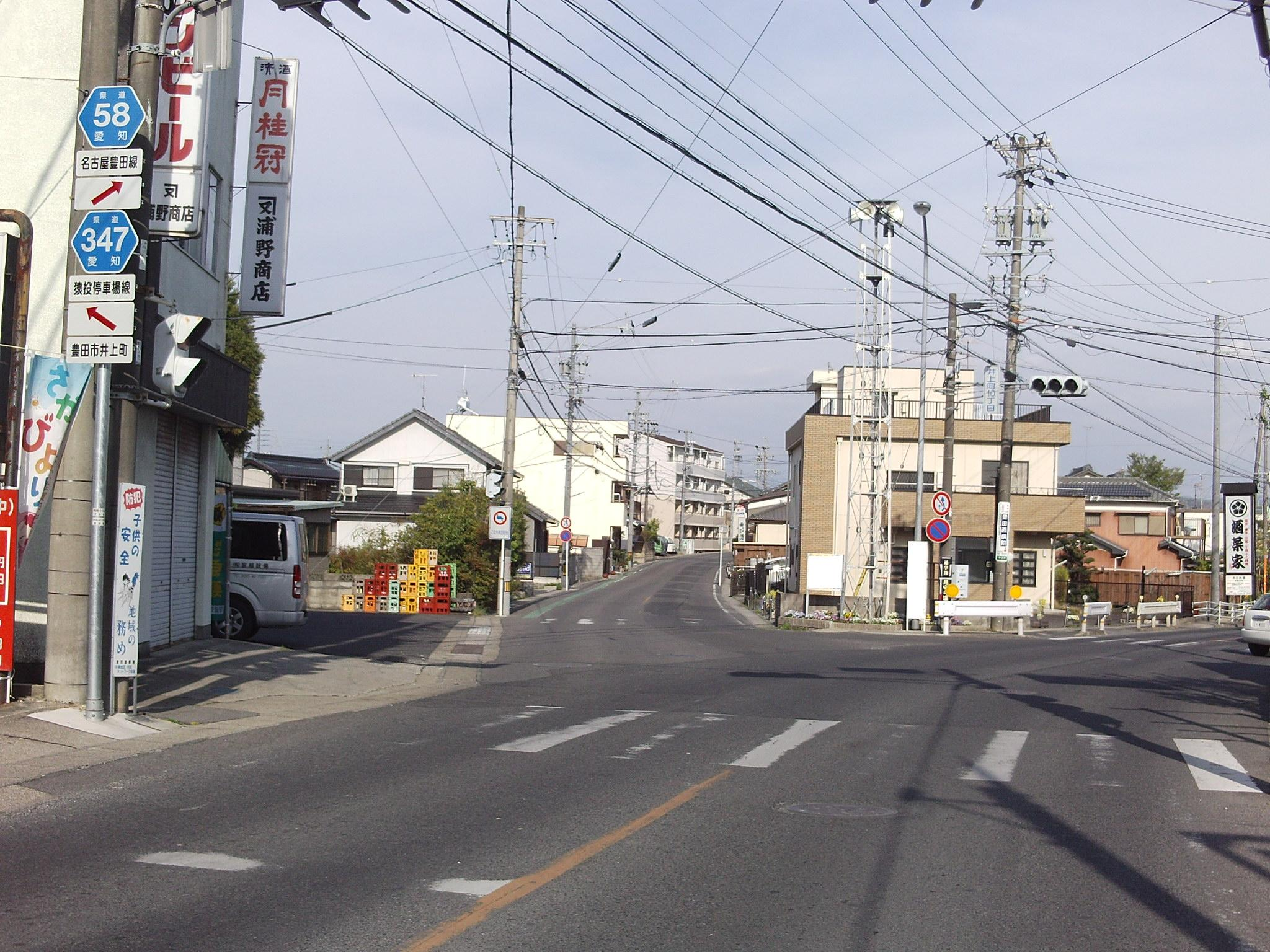 Aichi prefectural road No.347 in Inouecho 10-chome, Toyota, Aichi.